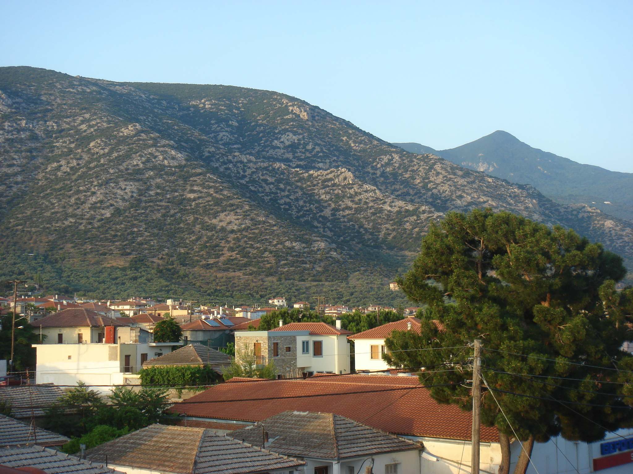 Agria, Magnesia, Greece